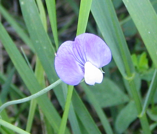 Lathyrus hirsutus, Fabaceae